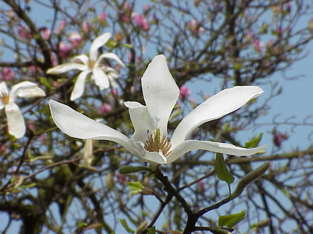 Species: Magnolia kobus borealis Family: Magnoliaceae Image No. 3